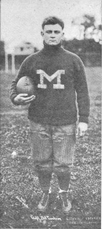 Photograph of William D. Cochran